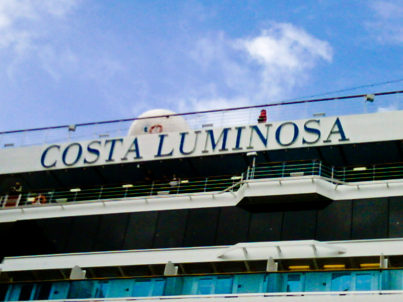 The title of the MS Costa Luminosa. This title is on the side part of the ship, above the entrance from the gate- / gangway.